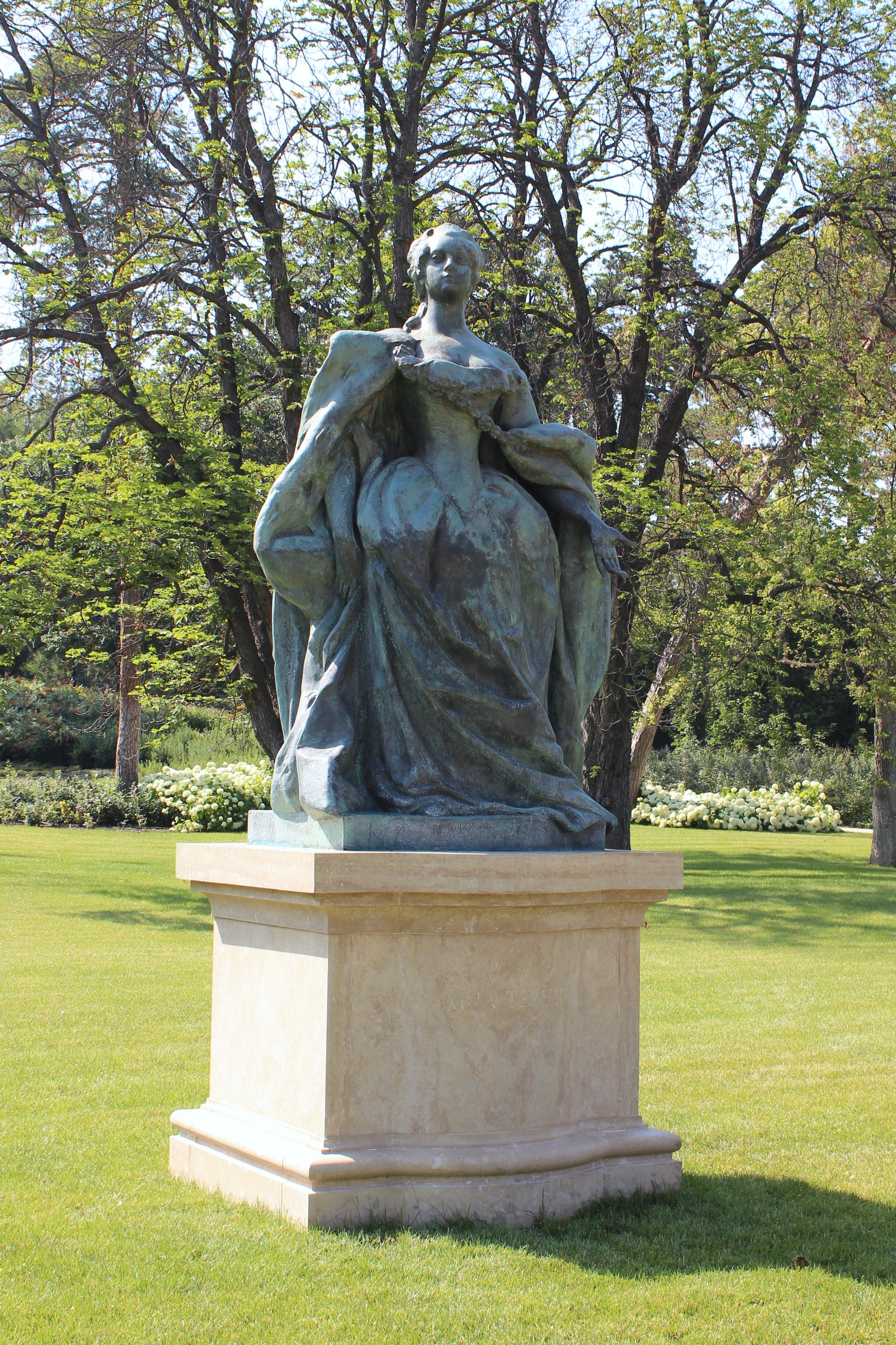 Sculpture of Maria Theresa in the park of Royal Palace of Gödöllő